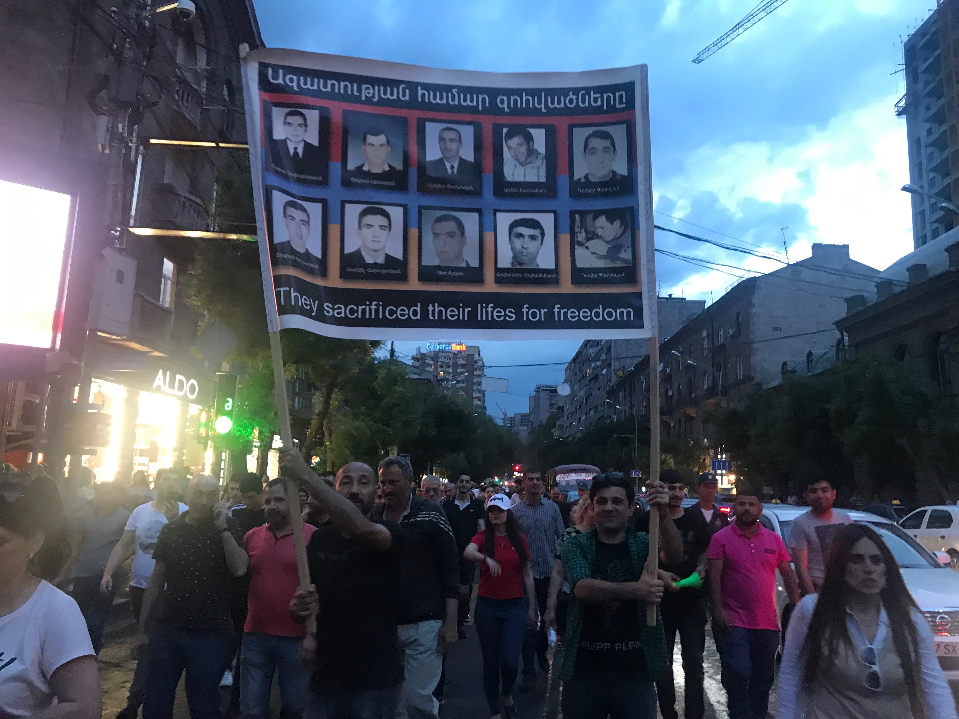 Protest against order of the Court of general jurisdiction of Yerevan to free Robert Kocharyan on bail from pre-trial detention. May 18, 2019, Yerevan.